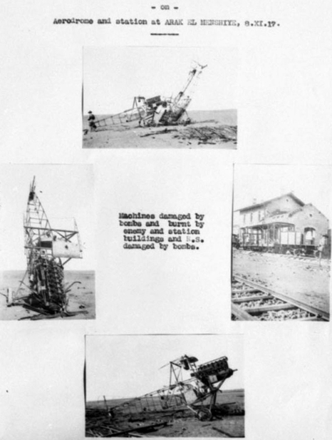 AWM caption : Ottoman Empire: Palestine. The results of a bombing attack on the enemy aerodrome, and railway station at Arak el Menshiyeh. (3 images showing AEG CIV fuselages and 1 image showing the railway station).